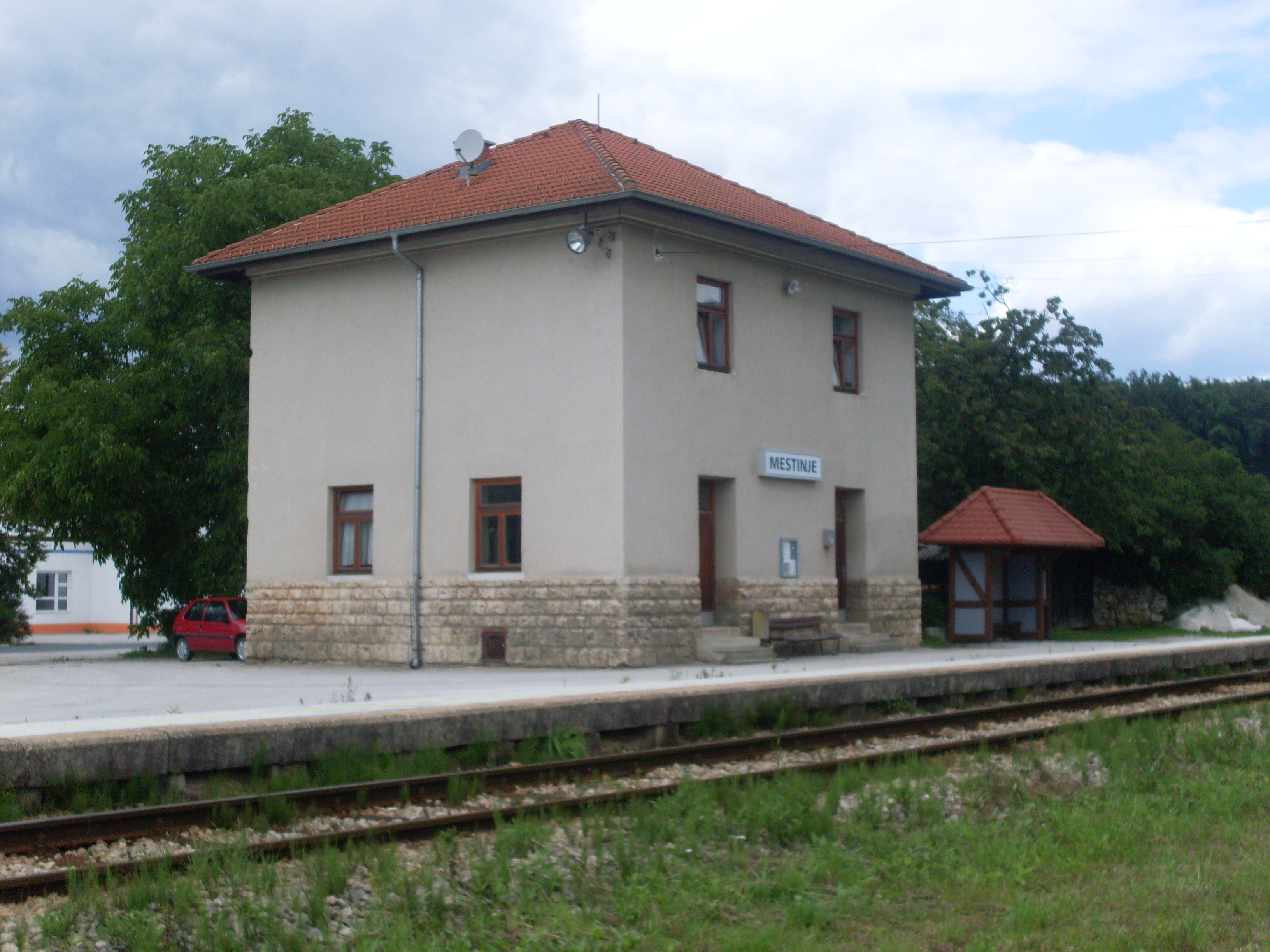 Railway halt in MestinjeUnknownUnknown železniško postajališče mestinje